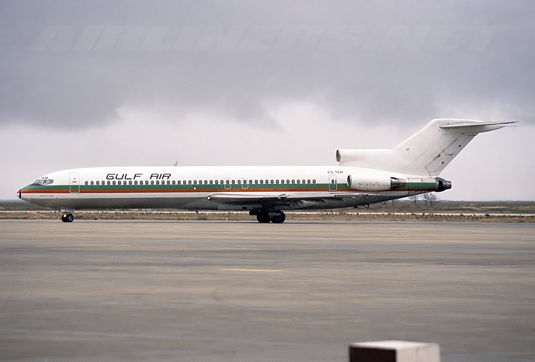 Basic Air Atlantis c/s.